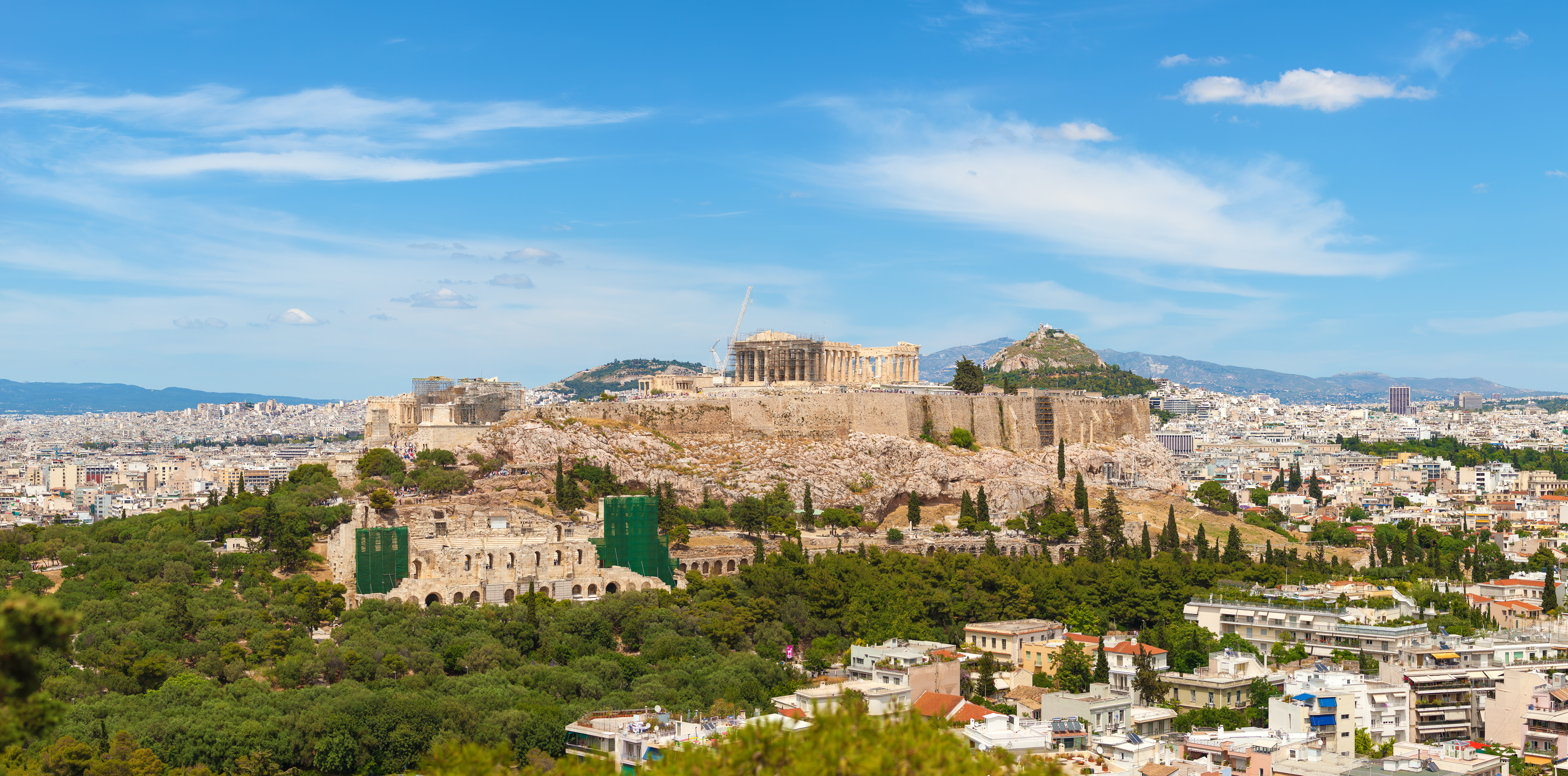 Acropolis in Athens, Greece